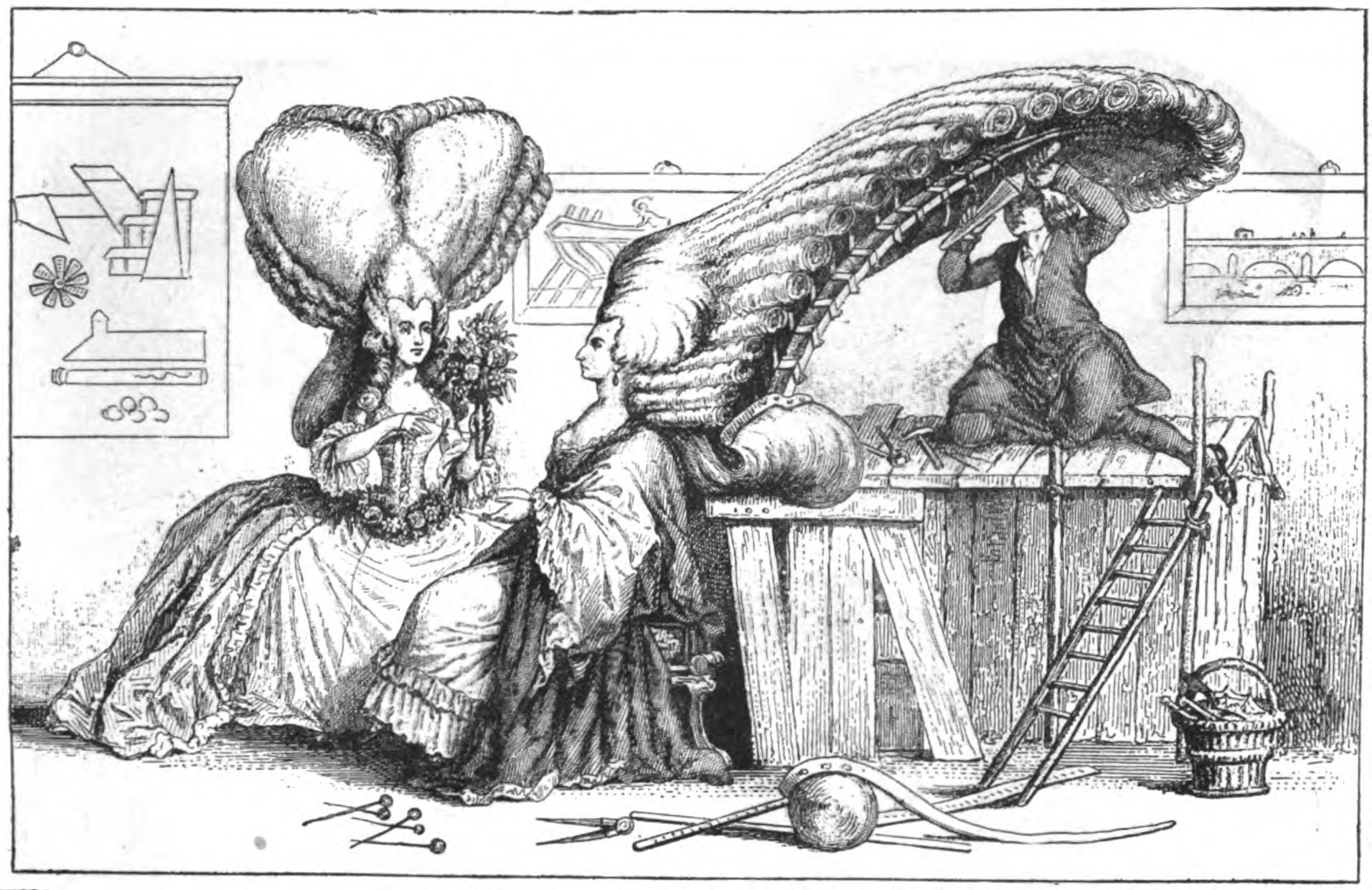 Old print showing Léonard-Alexis Autié's Académie de coiffure on the rue de la Chaussée d'Antin in Paris in 1788